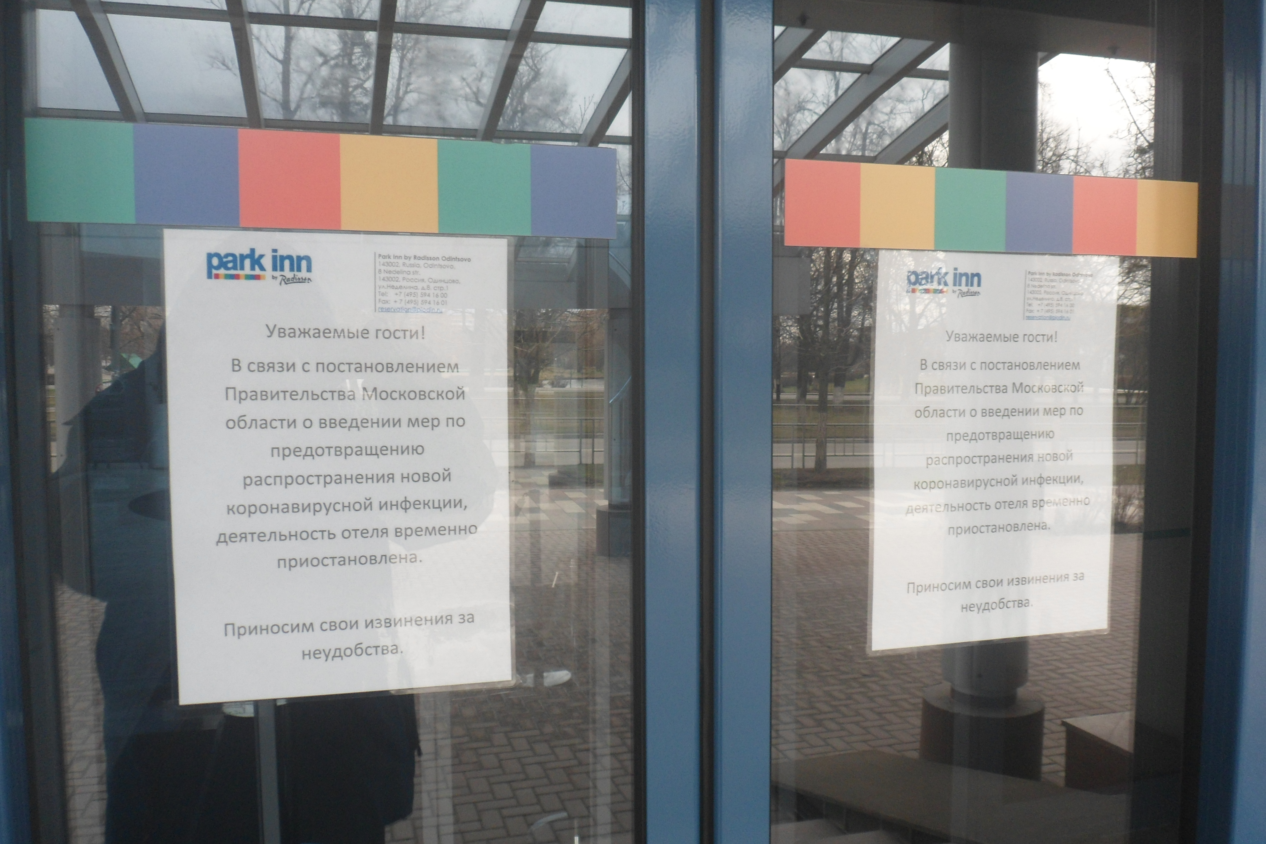 Closed hotel in Odintsovo, Moscow Oblast. COVID-19. 5th of April 2020